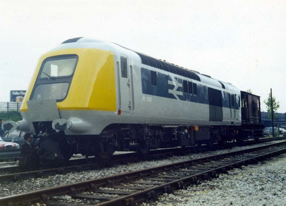 British Rail Class 41 number 41001 in 1972.